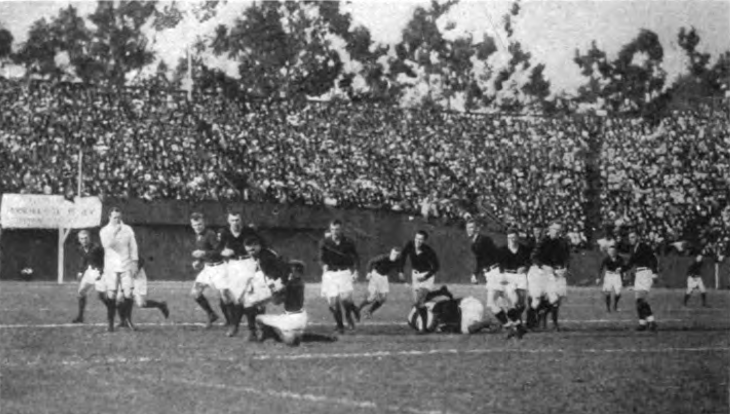 Photograph of a rugby game between Stanford and California University teams, played at Stanford Field, Stanford, California.